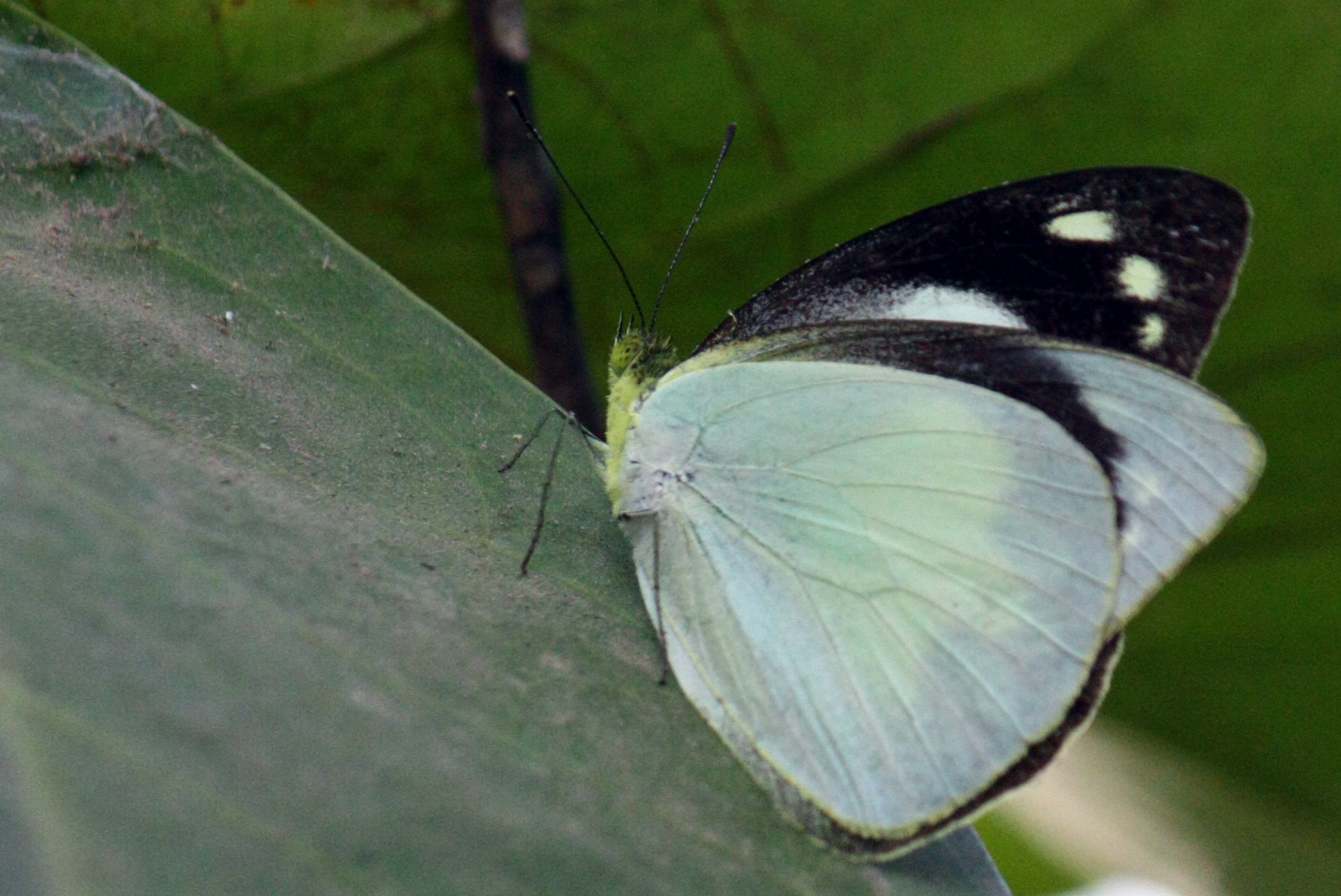 Common Albatross, Christmas Island White or Ceylon Lesser Albatross (Appias paulina)